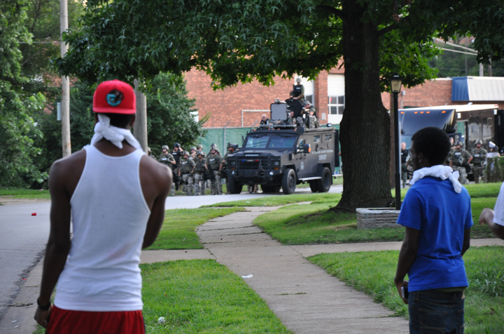 SWAT with LRAD device mounted on Lenco Bearcat armored vehicle.